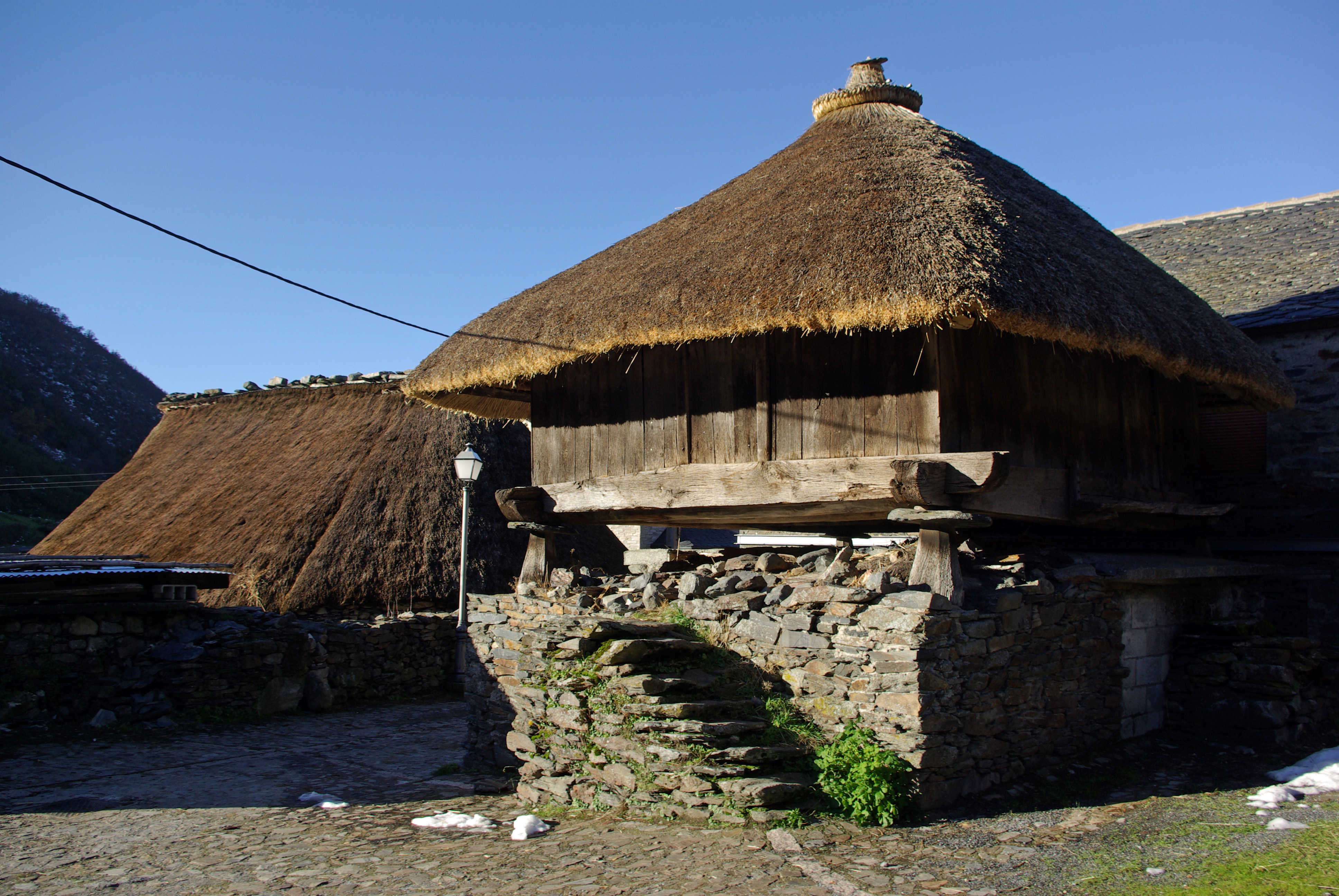 Hórreo in Balouta with a thatched straw, Candín (León, Spain). It's built on four slate walls. In one of them it's opened a door which gives access to the place where some belongings are kept. The granary sits on four legs of wood called pegollos. On the legs there is a slab that avoids the entrance to rodents. Between the granary floor and roof of the store there is a small vent space called camaranchón. The teito is of rye made with the technique of palette, with a unusual top, with well knotted straw braid.